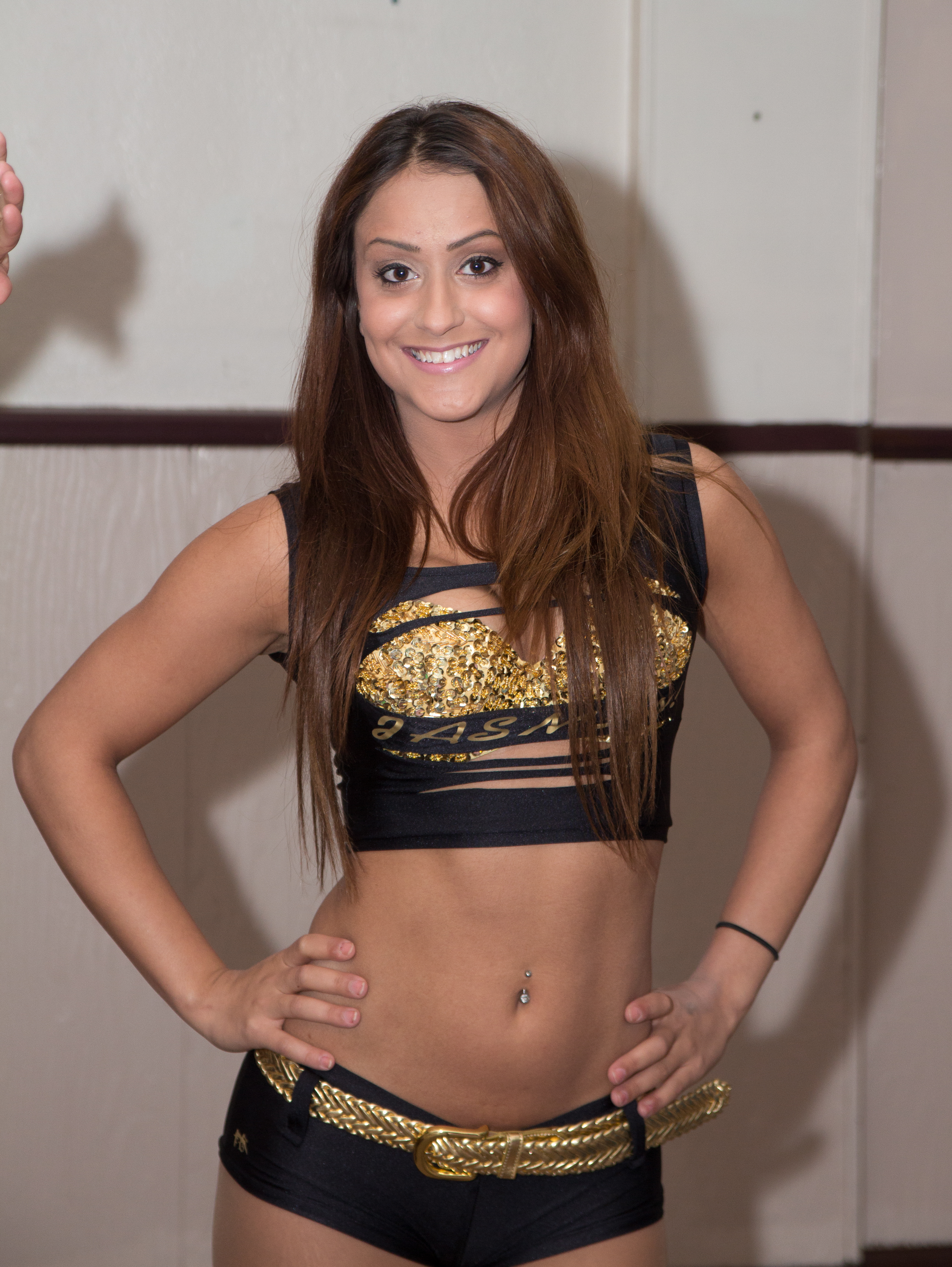 Jasmin Areebi at a PWA show in Kitchener, ON